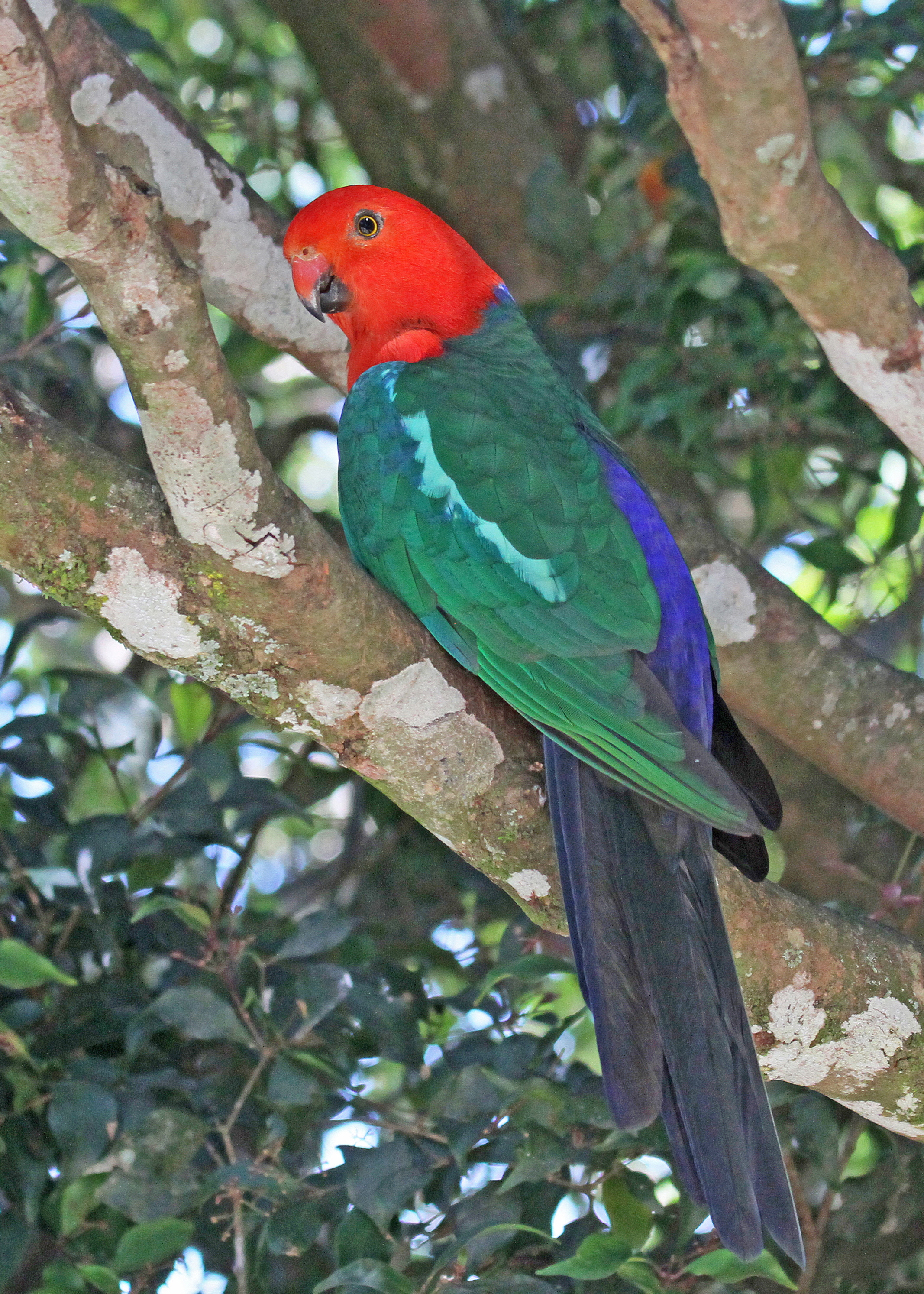 photo of Australian King Parrot